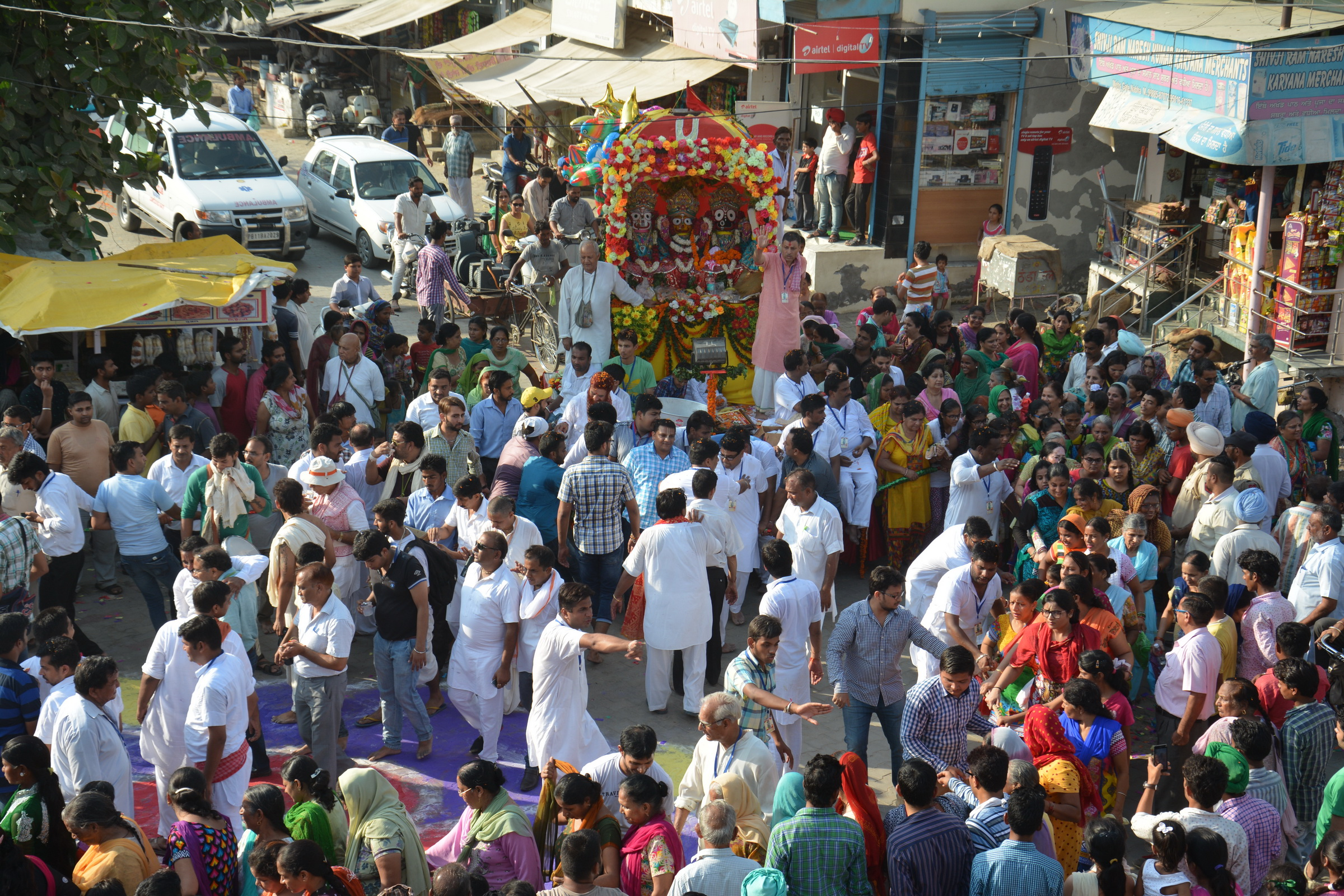 Lord Jagannath Ji On Ratha with Devotees .